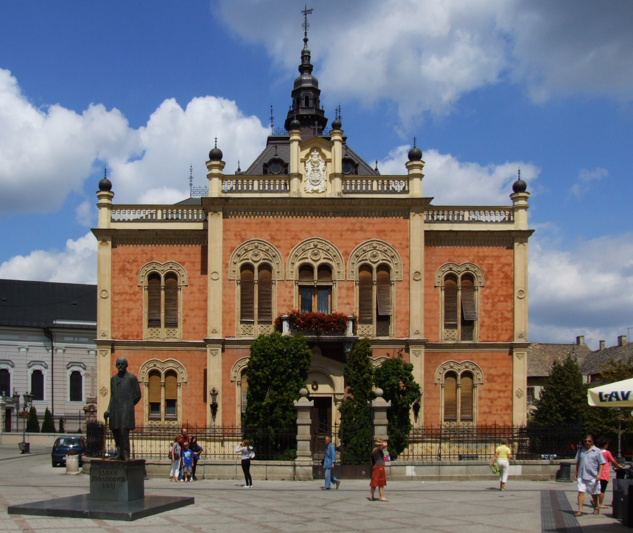 Novi Sad (Újvidék, Neusatz, Нови Сад) - bishop palace